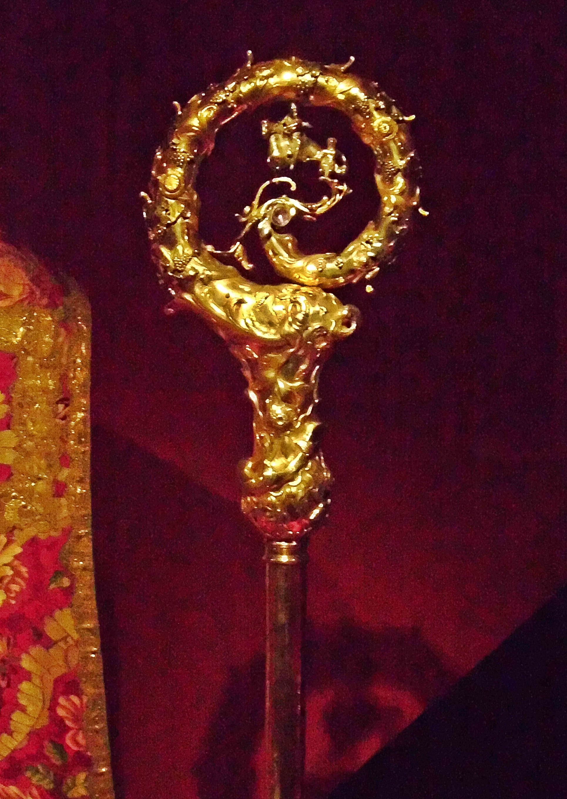 Stab des Mainzer Erzbischofs Emmerich Joseph von Breidbach zu Bürresheim (+ 1774), heute Speyerer Domschatz im Historischen Museum der Pfalz, Speyer